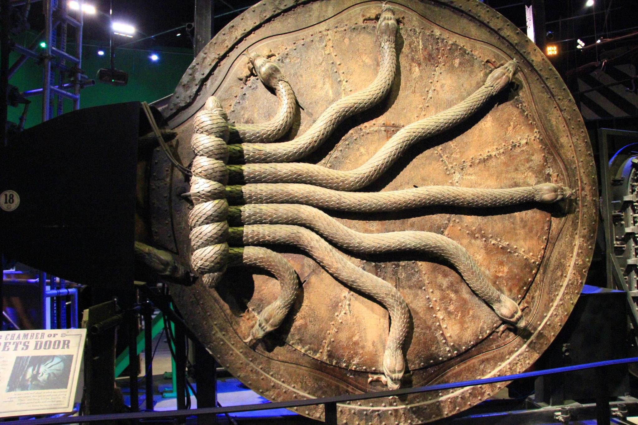 Warner Bros. Studio Tour London: The Making of Harry Potter.